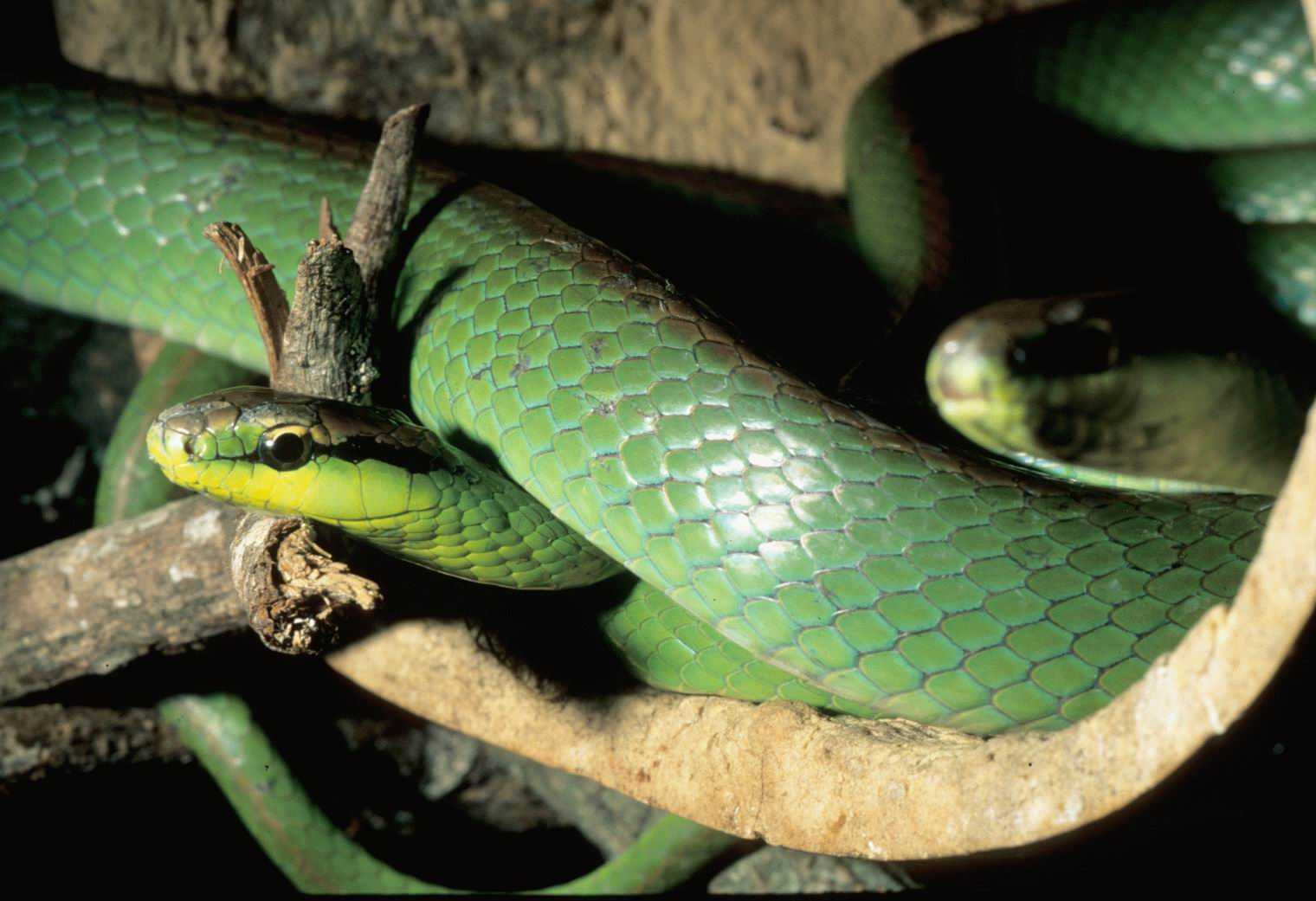 Philodryas olfersii